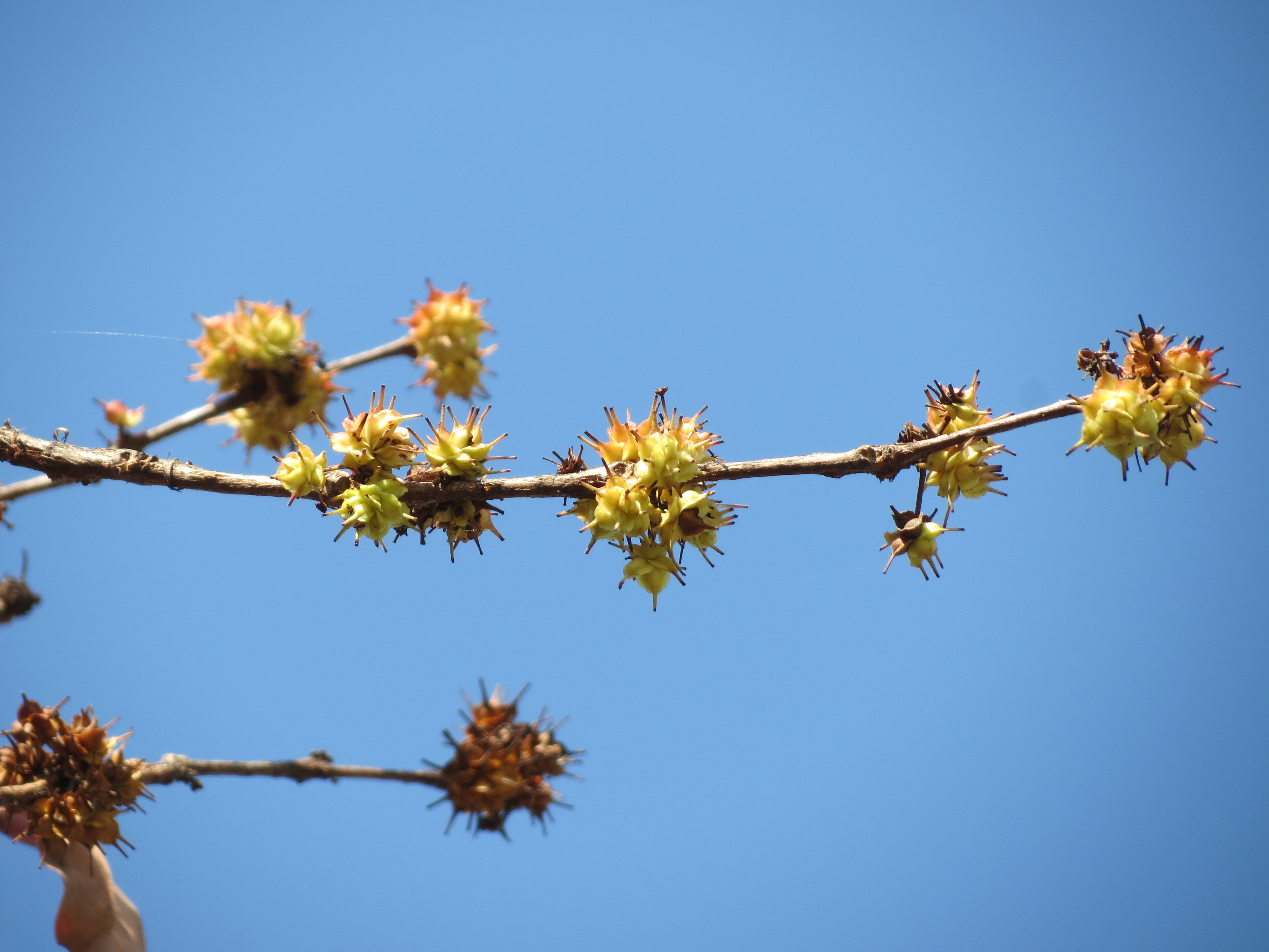 Anogeissus latifolia(Axle wood tree) seen in Ragihalli forest in Bangalore